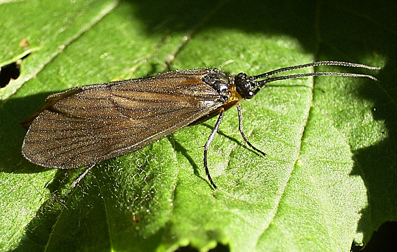 Oligotricha striata,from Southern Germany, near Tuttlingen, 700 m